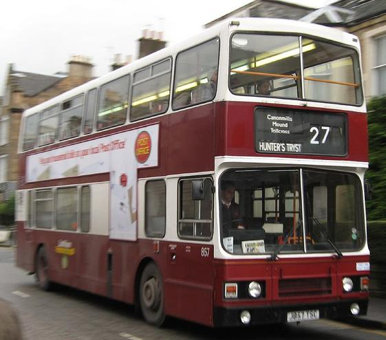 Lothian Buses bus 857 (reg. J857 TSC), a 1991 Leyland Olympian double-decker with dual-door Alexander RH bodywork, wearing Madder and White livery. Pictured operating route 27, heading for Hunter's Tryst.